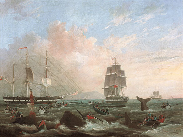 Tasmanian Museum and Art Gallery: This painting is the best-known whaling scene in Tasmanian colonial art..